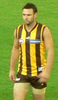 The source of this image is my camera --Rulesfan (talk) 04:47, 19 June 2008 (UTC) Brent Guerra, Australian rules footballer